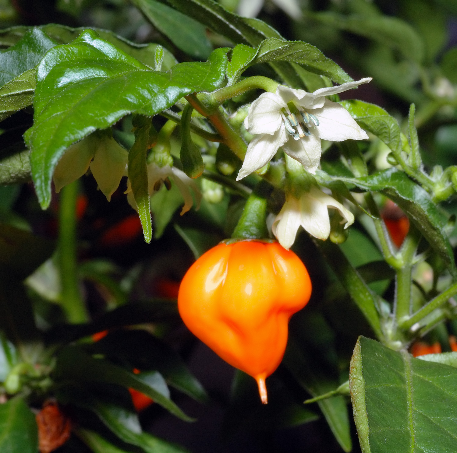 This image shows a Habanero chile flower with a fruit (Capsicum chinense).